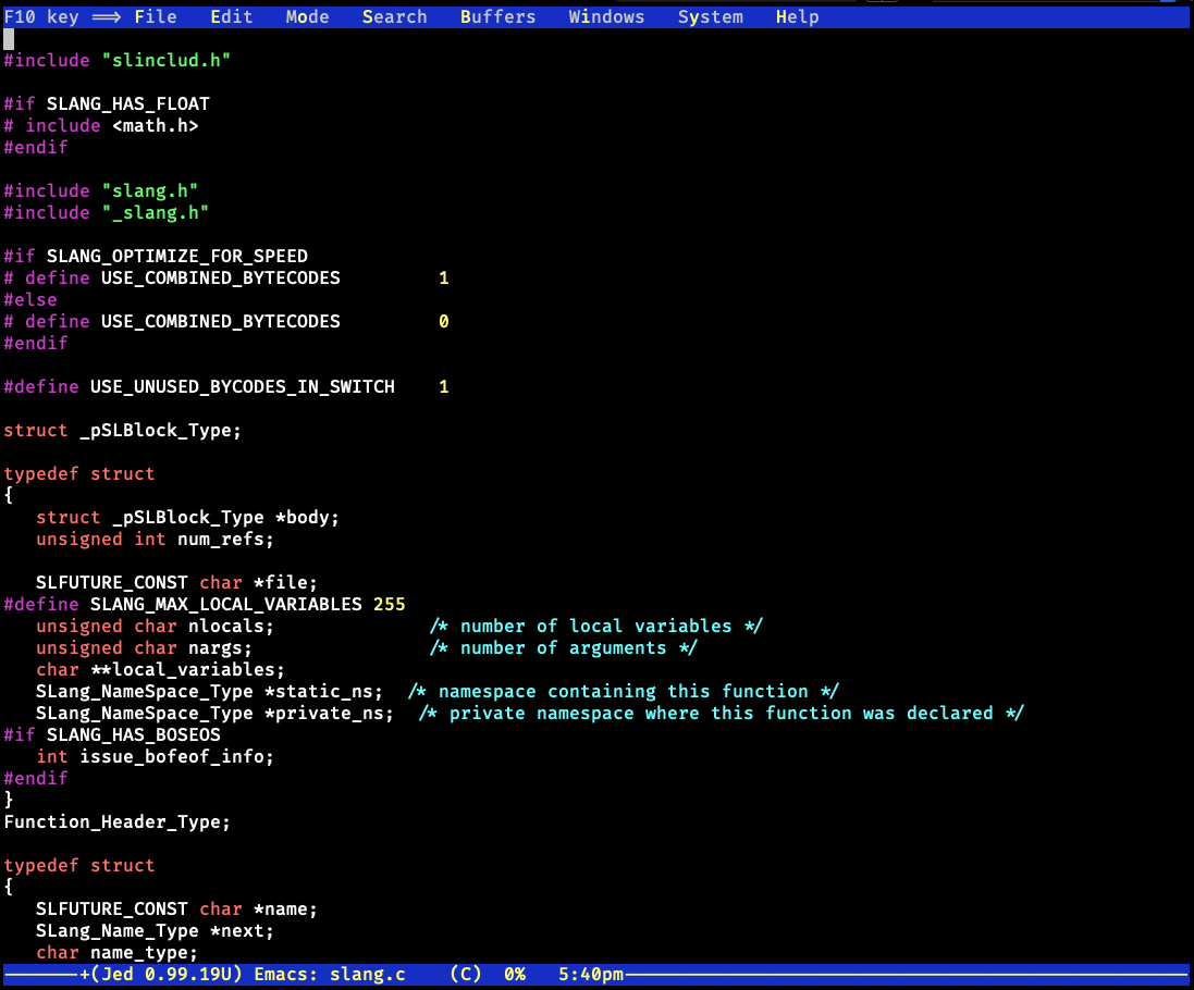 This is a screenshot of the terminal-based text editor JED, with the file S-Lang.c open in its buffer. JED is built with S-Lang, hence the choice of file for this image.